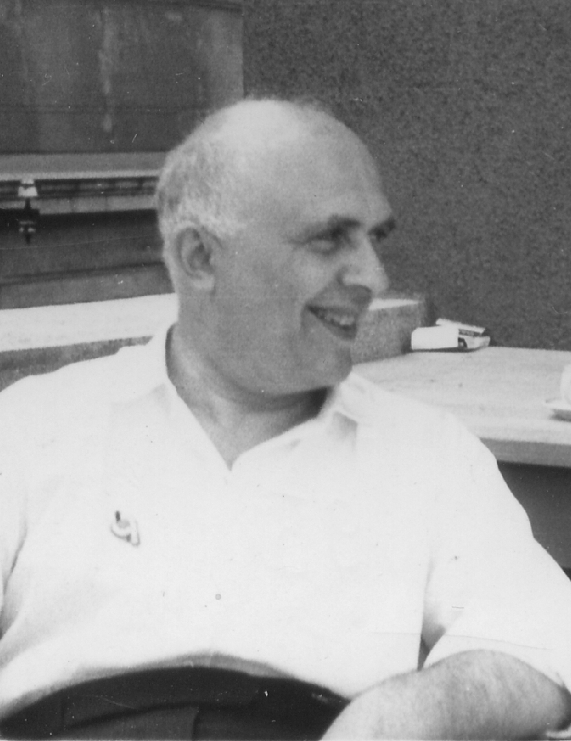 Vitali Halberstadt (20.03.1903-25.10.1967) French chess composer